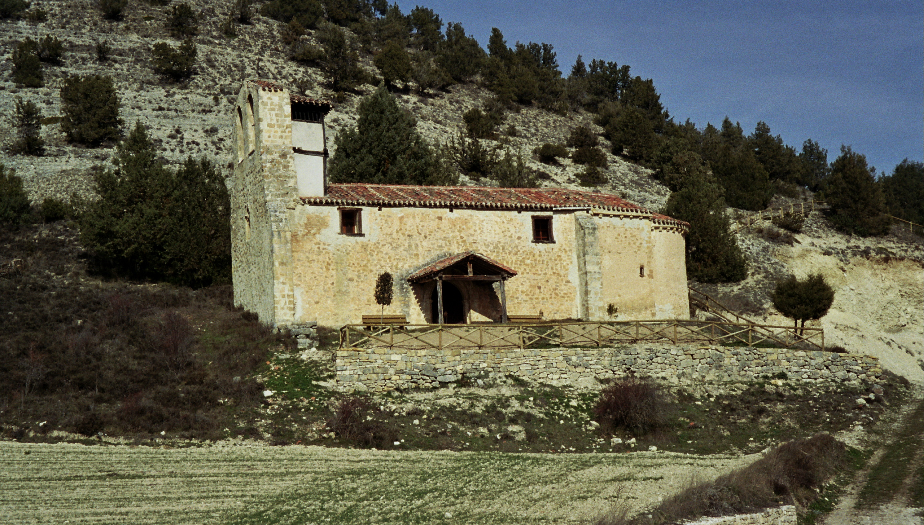 Hermitage of the Valley (Ermita del Valle), Muriel de la Fuente, Soria (Spain).